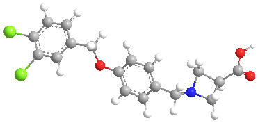 Ball and stick representation of A-971432